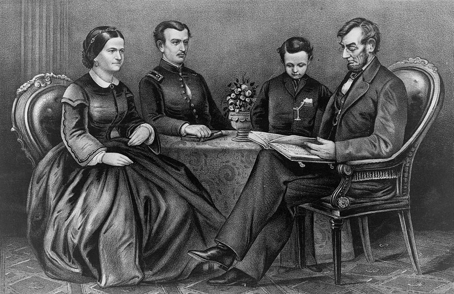 Currier & Ives lithograph of United States President Abraham Lincoln with his wife, Mary Todd Lincoln, and his sons, Robert and Thaddeus Lincoln.